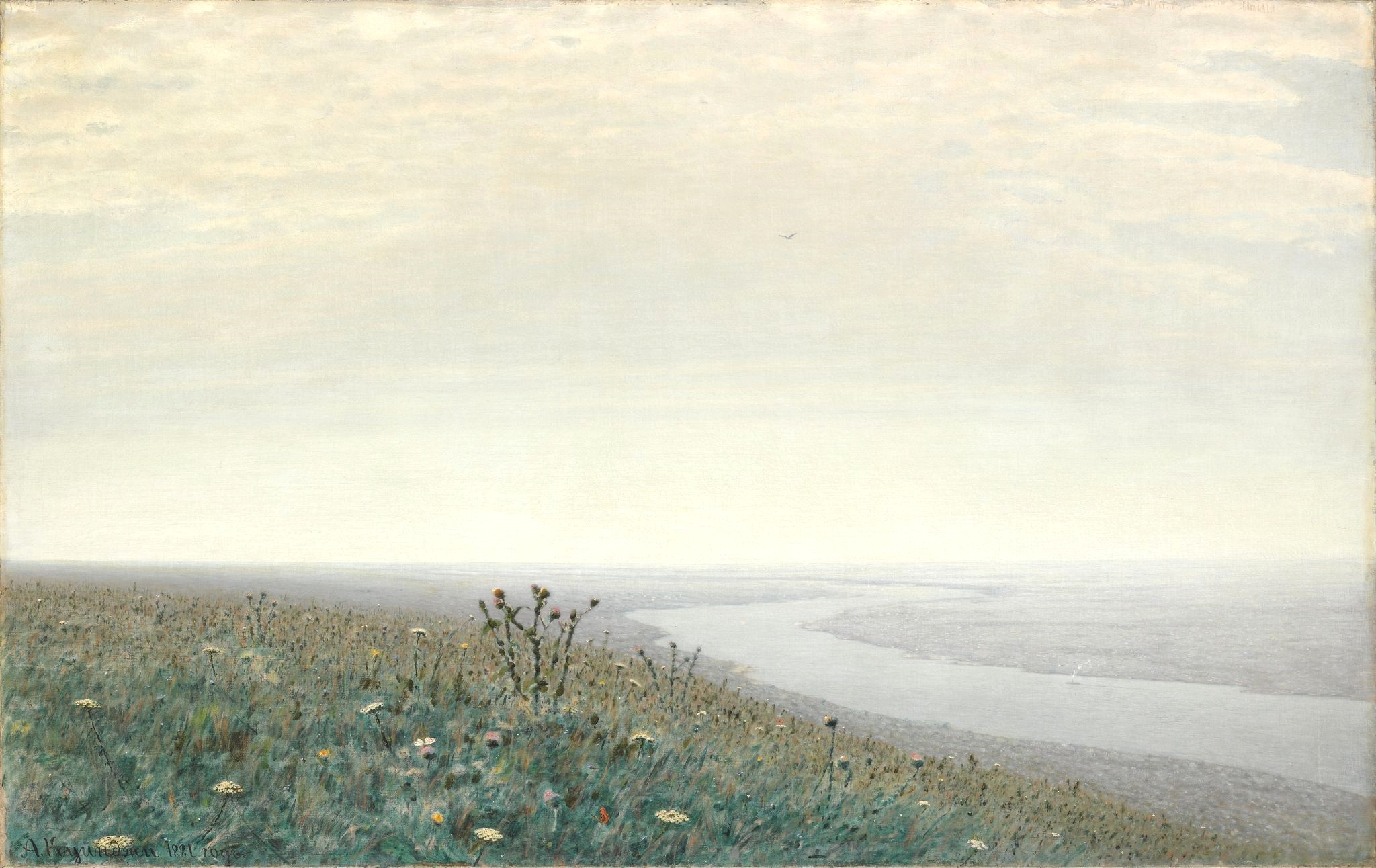 Dnieper in the morning (painting by Arkhip Kuindzhi, 1881)